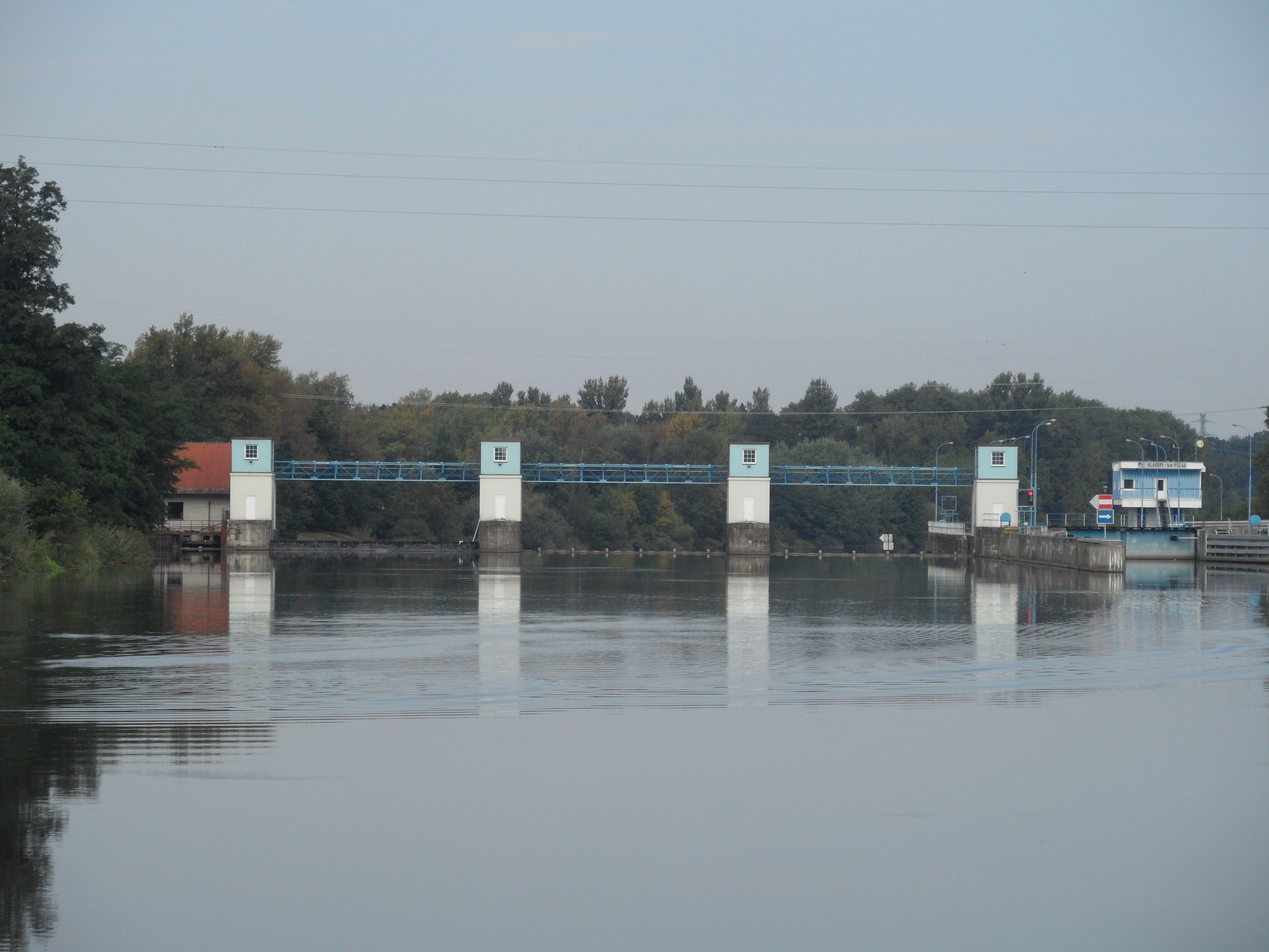 Lock Klavary A. Overview: Direction from Kolín, Kolín District, the Czech Republic.